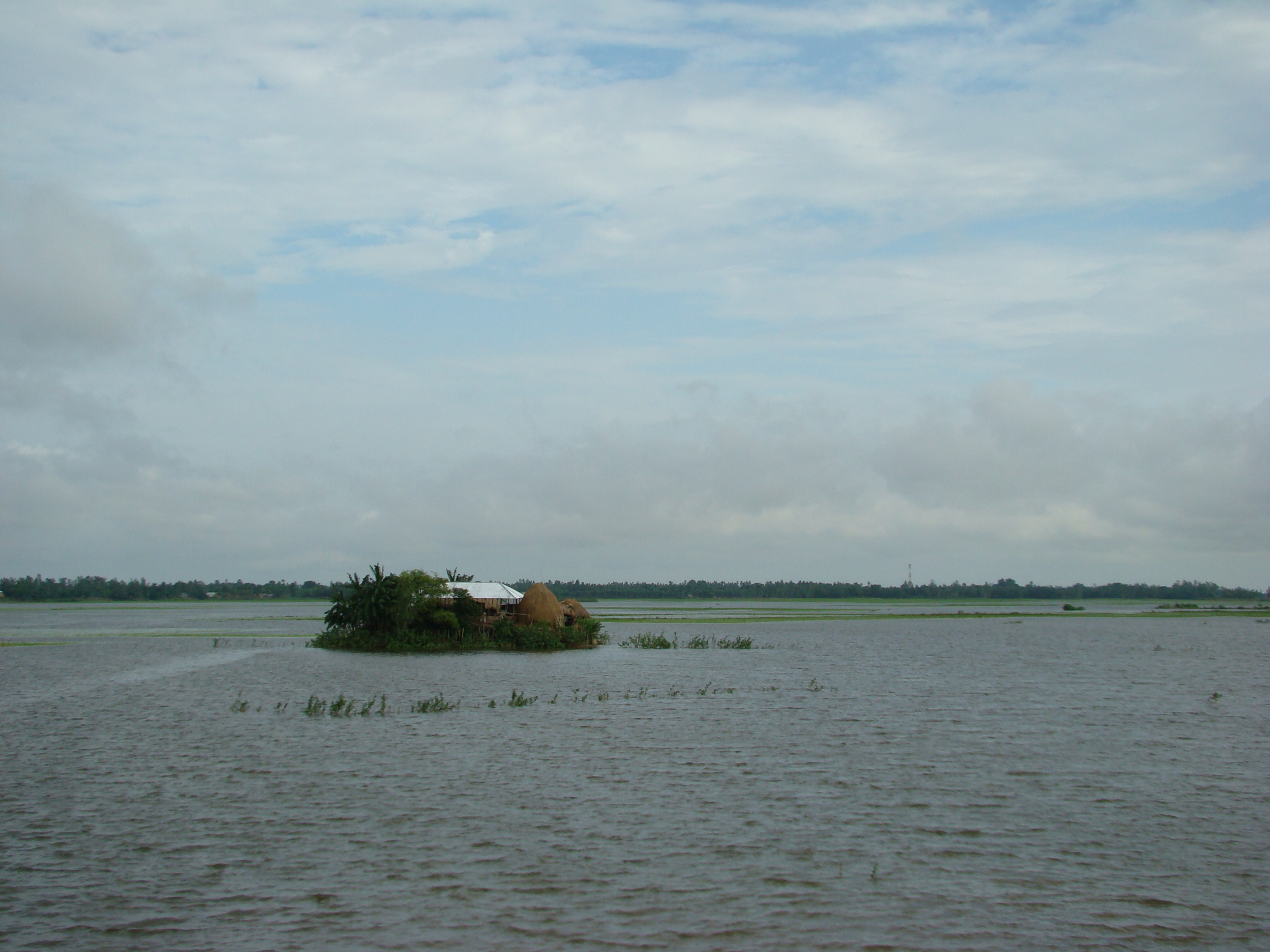 Chalan Beel Natore Bangladesh